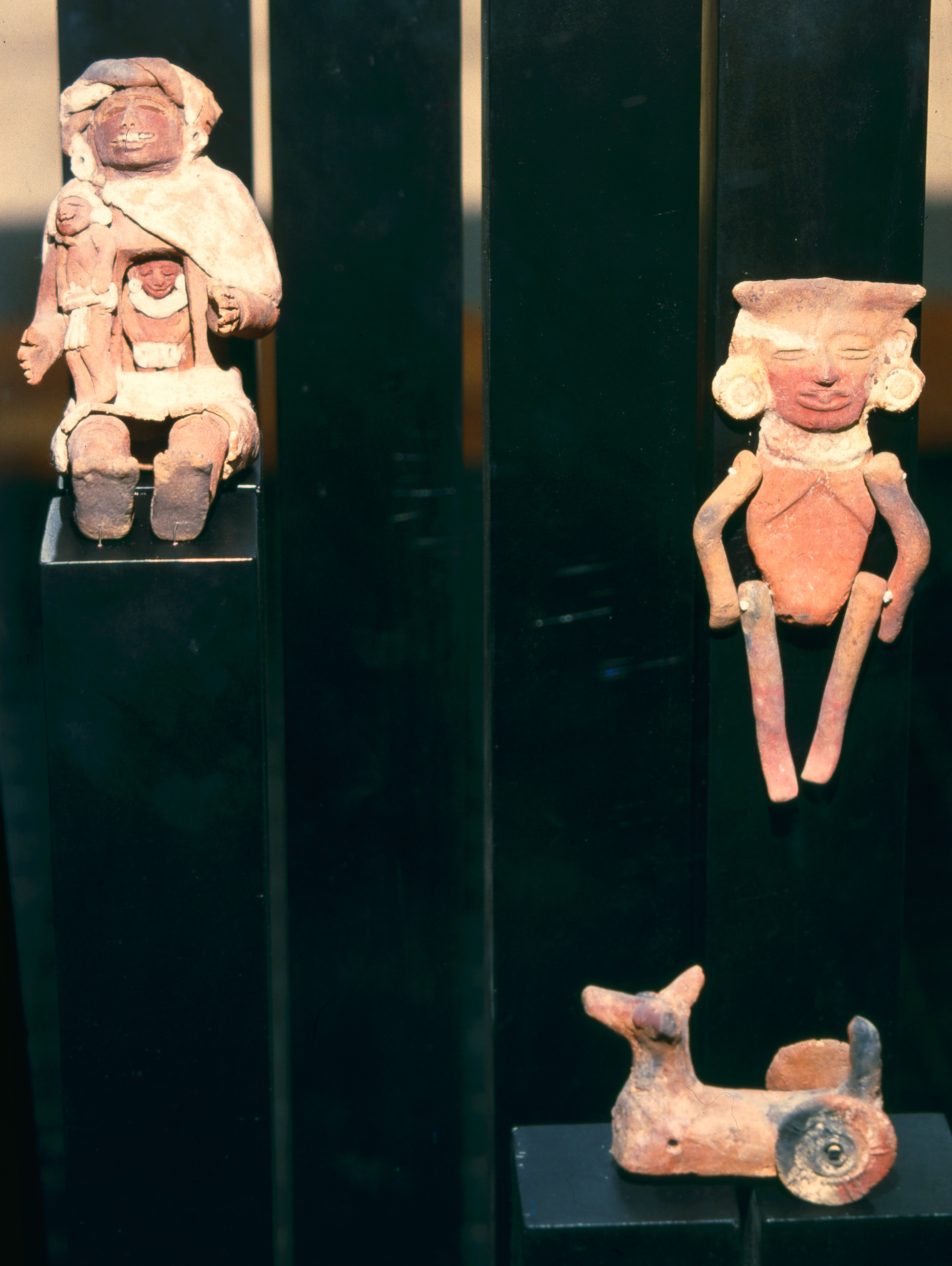 Figurines from Cerro Xochitecatl in Anthropological Museum, Puebla, Puebla.